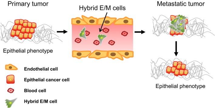 EMT/MET process while metastasis -taken from Revisiting epithelial‐mesenchymal transition in cancer metastasis: the connection between epithelial plasticity and stemness/Tsai‐Tsen Liao and Muh‐Hwa Yang/Molecular Oncology and 11(7): 792–804/metastasis